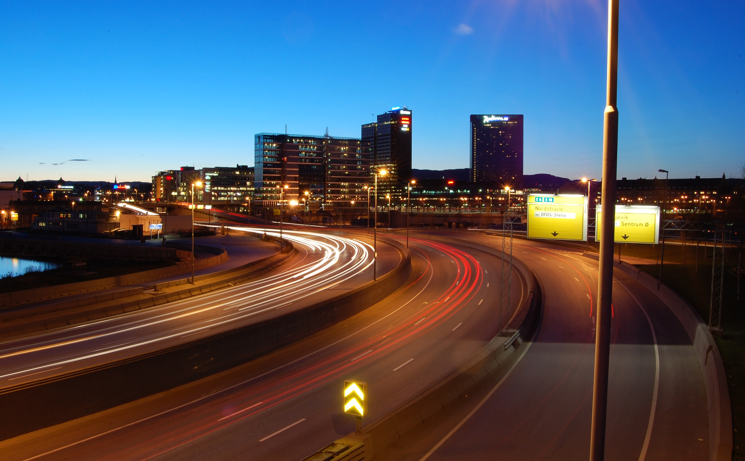 E18 into Oslo with the Postal building and the Radisson SAS hotel in the background.